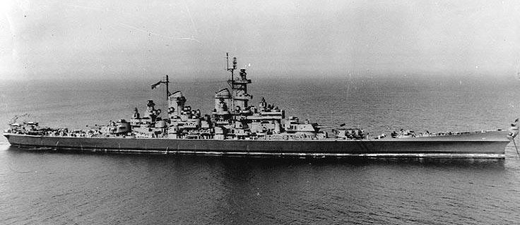 The U.S. Navy battleship USS Wisconsin (BB-64) at anchor on 30 May 1944, during her Atlantic coast shakedown period.